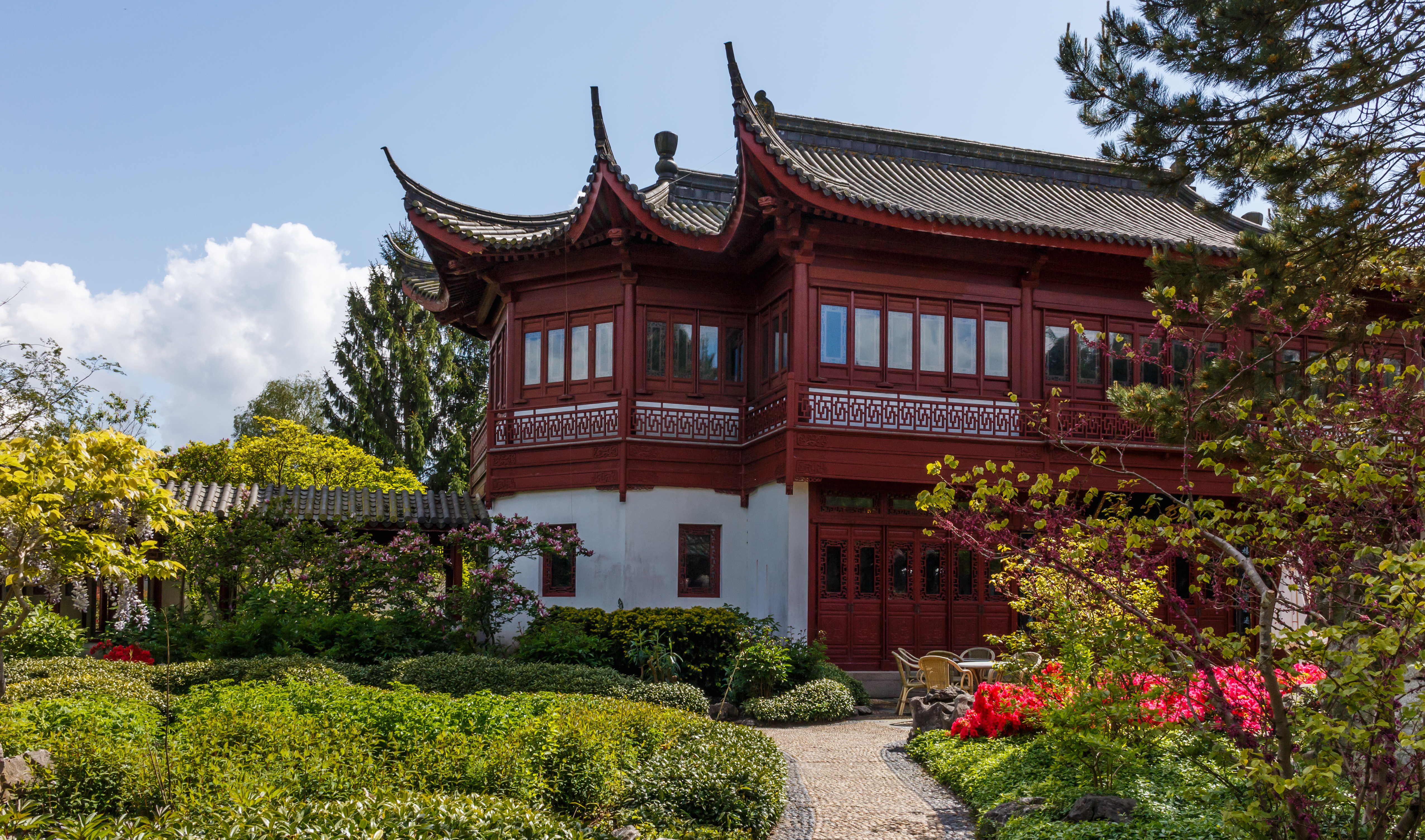 Building in the Chinese Garden The Hidden Empire Ming in the Hortus Haren in the Netherlands.